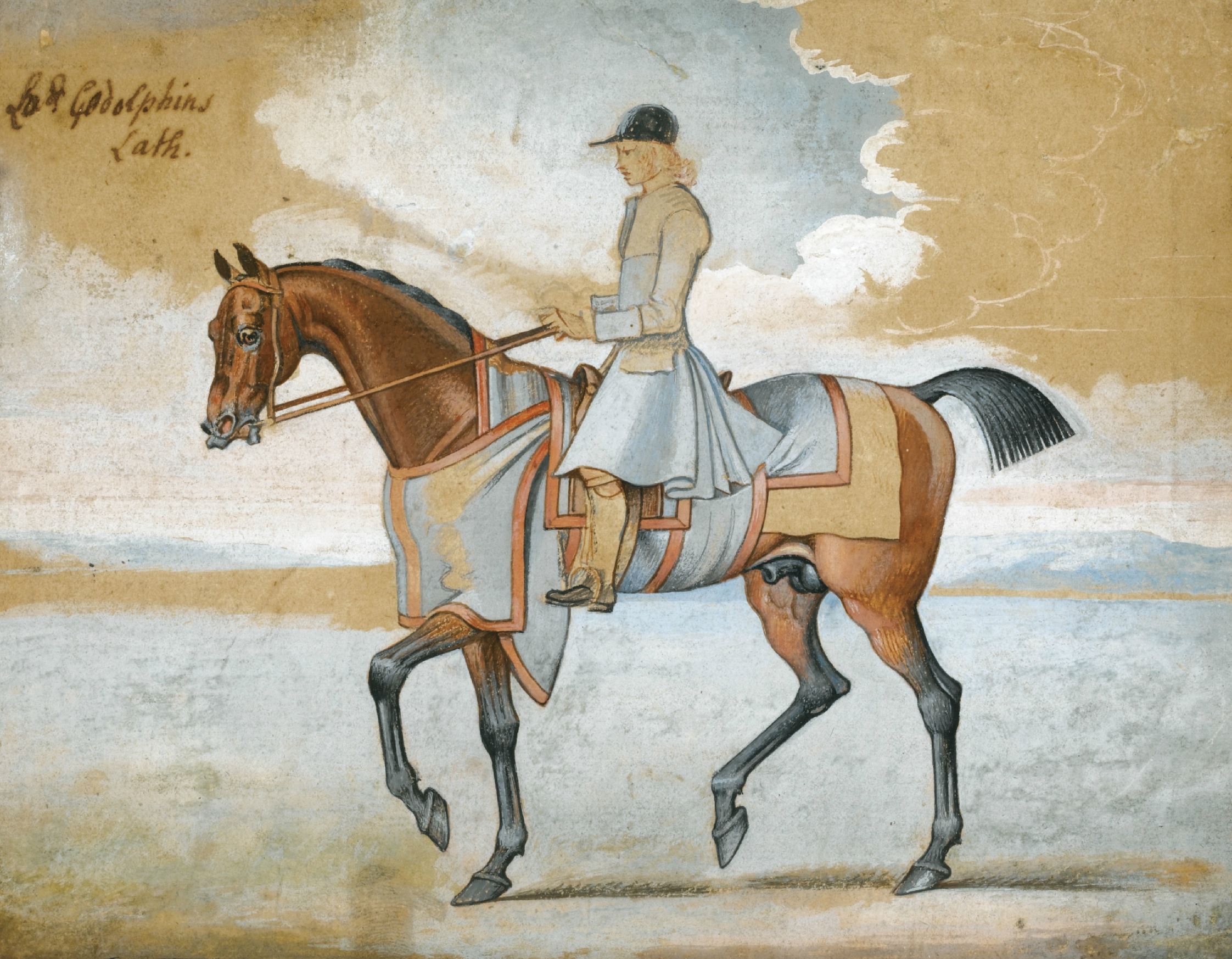 Lord Godolphin's Lath bodycolour over pencil on laid paper 13.5 x 17.4 cm inscribed u.l. Lod [sic] Godophins / Lath